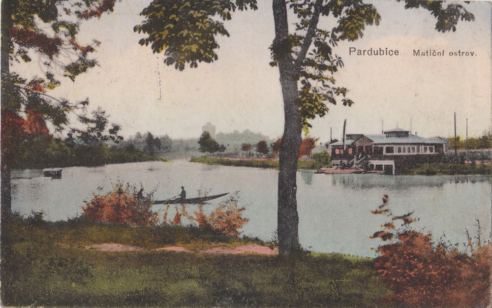 Pardubice, Matiční lake